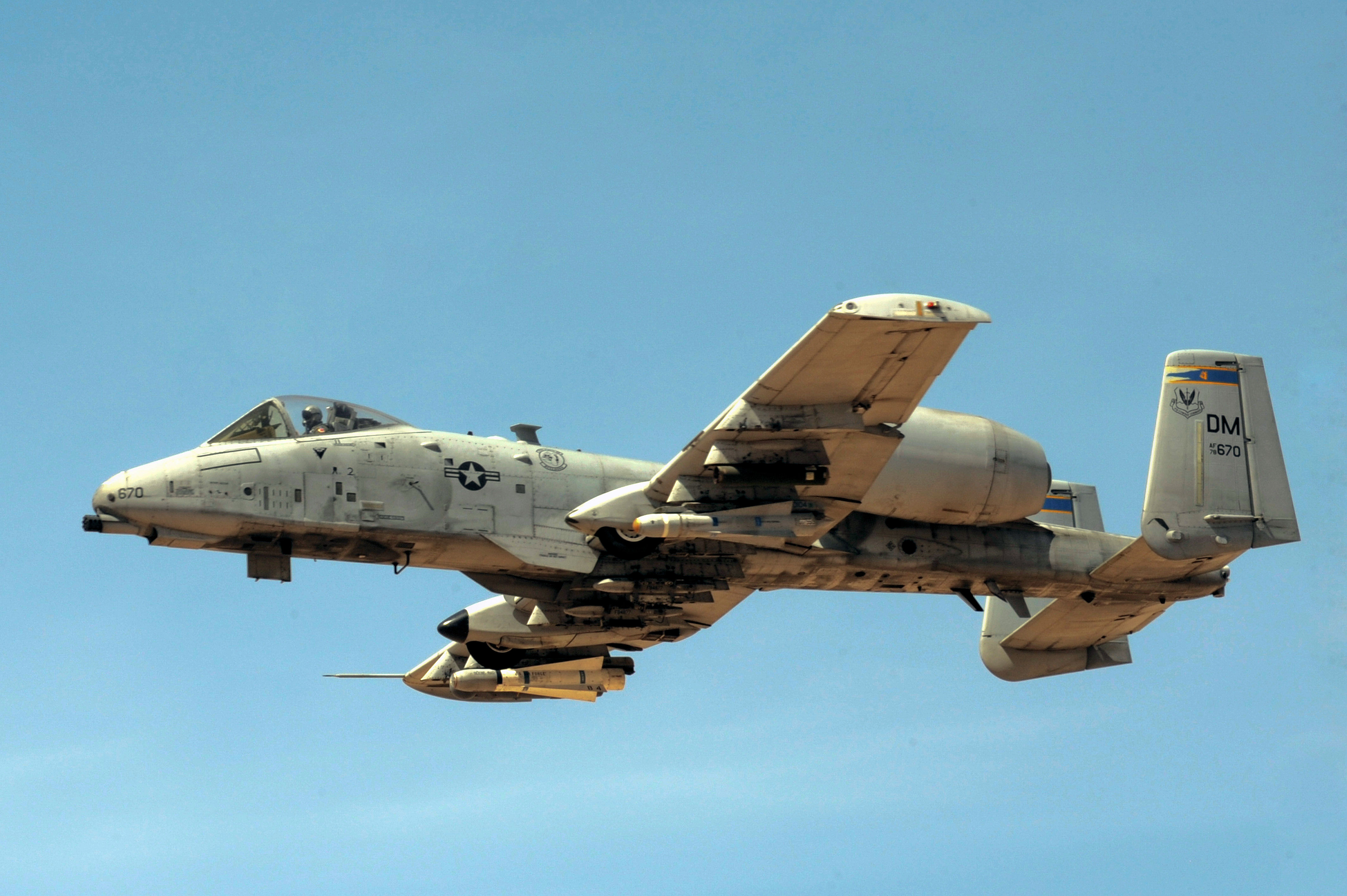 An A-10 Thunderbolt from the 354th Fighter Squadron flies through the air during a strafing run at Barry M. Goldwater Air Force Range in Wellton, Ariz., May 5, 2014. The 354th FS is sending approximately 130 individuals, from maintainers to pilots, as well as eight A-10 aircraft to Eielson Air Force Base, Alaska, to participate in a Red Flag exercise until May 23. (U.S. Air Force photo by Airman 1st Class Chris Drzazgowski/Released)